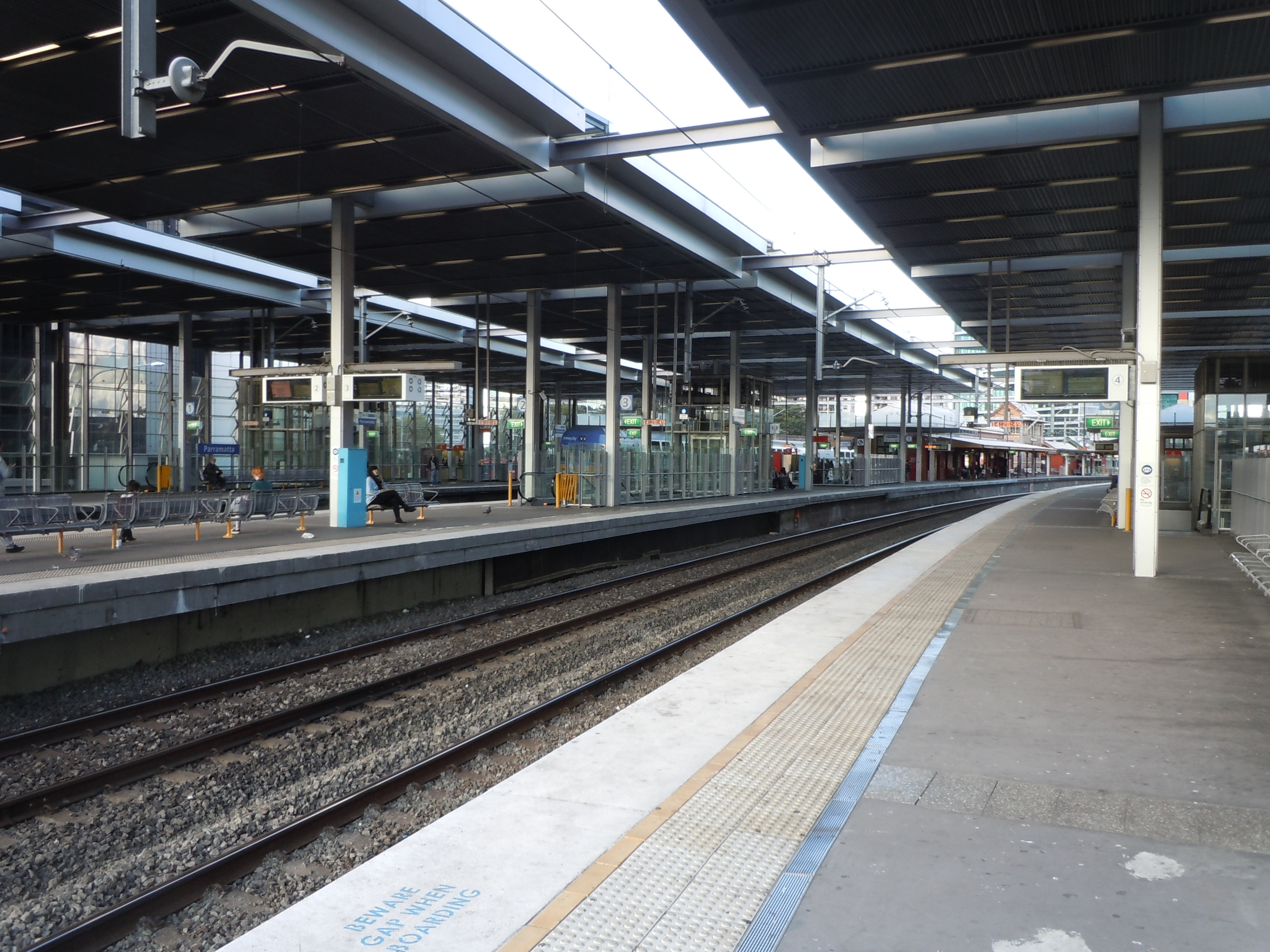 Westmead end of the platforms at Parramatta railway station.